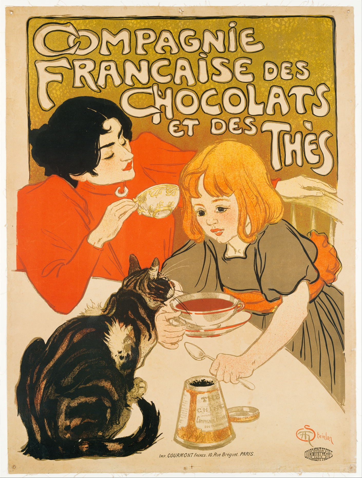 Print; Prints